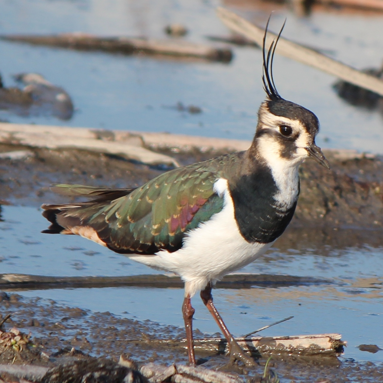 Vanellus vanellus (Northern Lapwing), walking, in Japan.